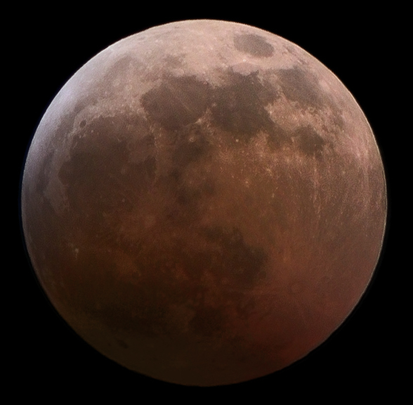 HDR Picture of the Dec 2010 Moon eclipse.